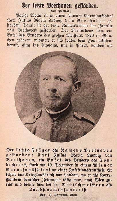 Karl Julius Maria Beethoven / Son of Ludwig Johann van Beethoven / Grandson of Karl van Beethoven / Great-Great-Nephew of Ludwig van Beethoven / the last Beethoven